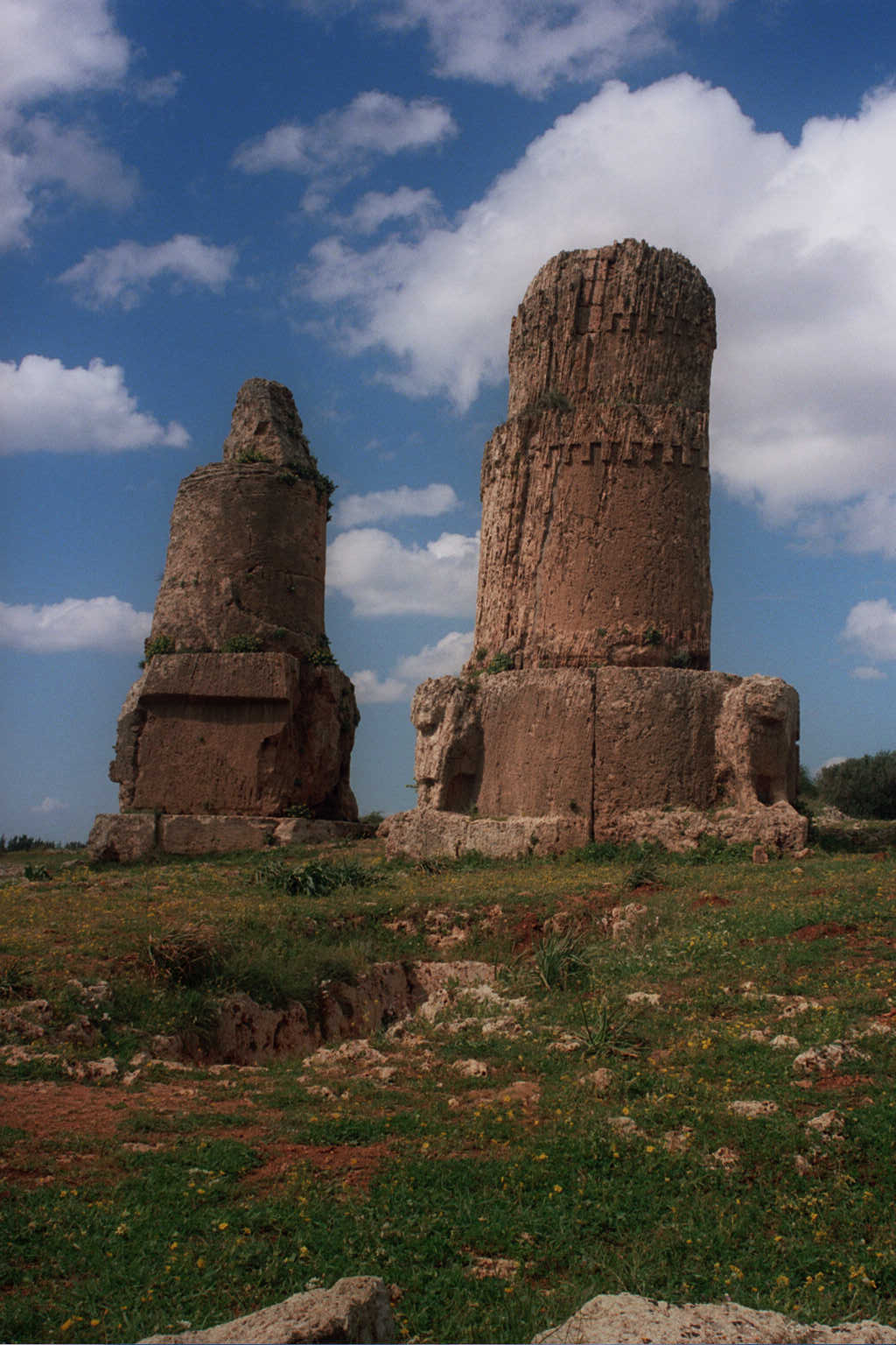 Tower tombs at Amrit (Syria)